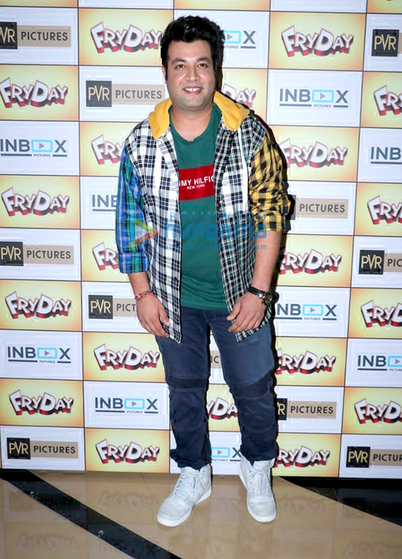 Varun Sharma snapped at trailer launch of the film Fry Day.